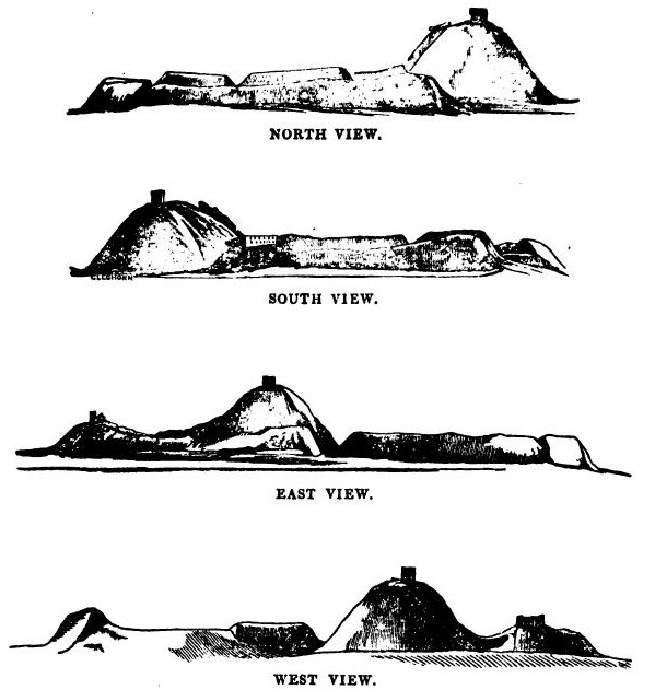 1849 drawing of Clare Castle, trimmed and tidied up by hchc2009